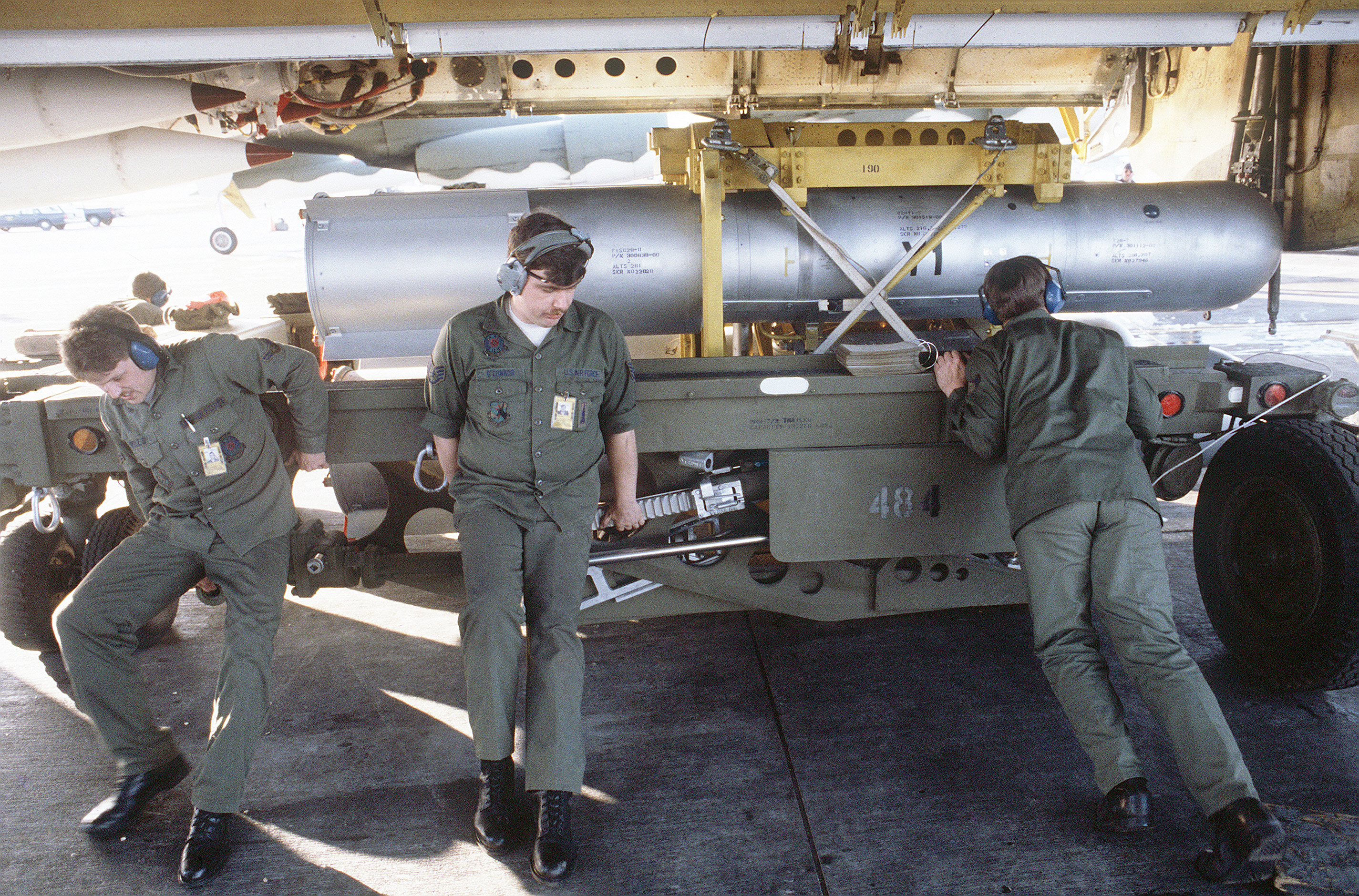 A Mark 28 thermo-nuclear bomb is unloaded from a U.S. Air Force Boeing B-52H Stratofortress aircraft during exercise “Global Shield '84” at Ellsworth Air Force Base, South Dakota (USA), on 1 April 1984.